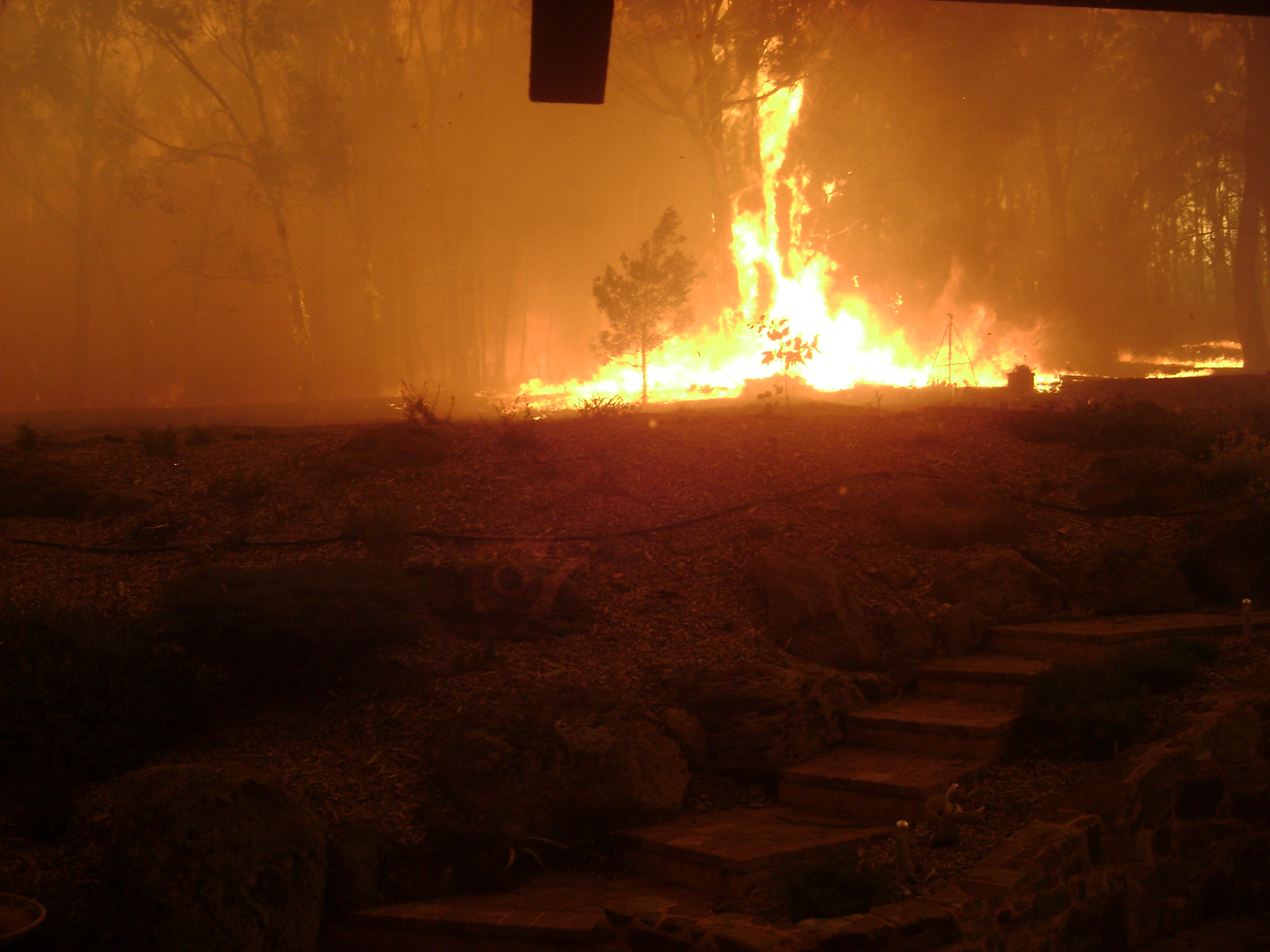 This is a view from the kitchen window, when two fronts attacked the property from two directions at once